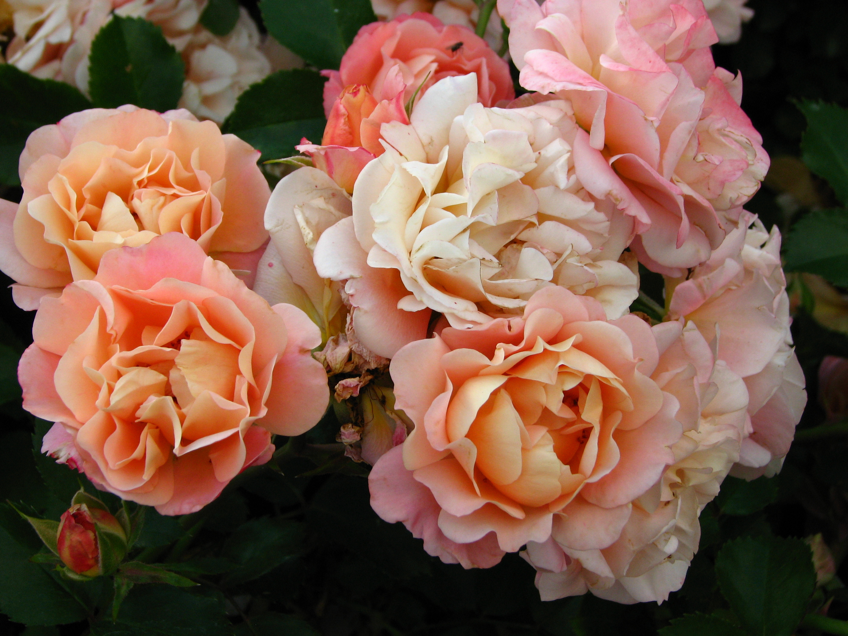 Rosa 'Cubana' (Kordes, 2001). From the collection of the Main Botanical Garden of Academy of Sciences in Moscow (Rosarium).